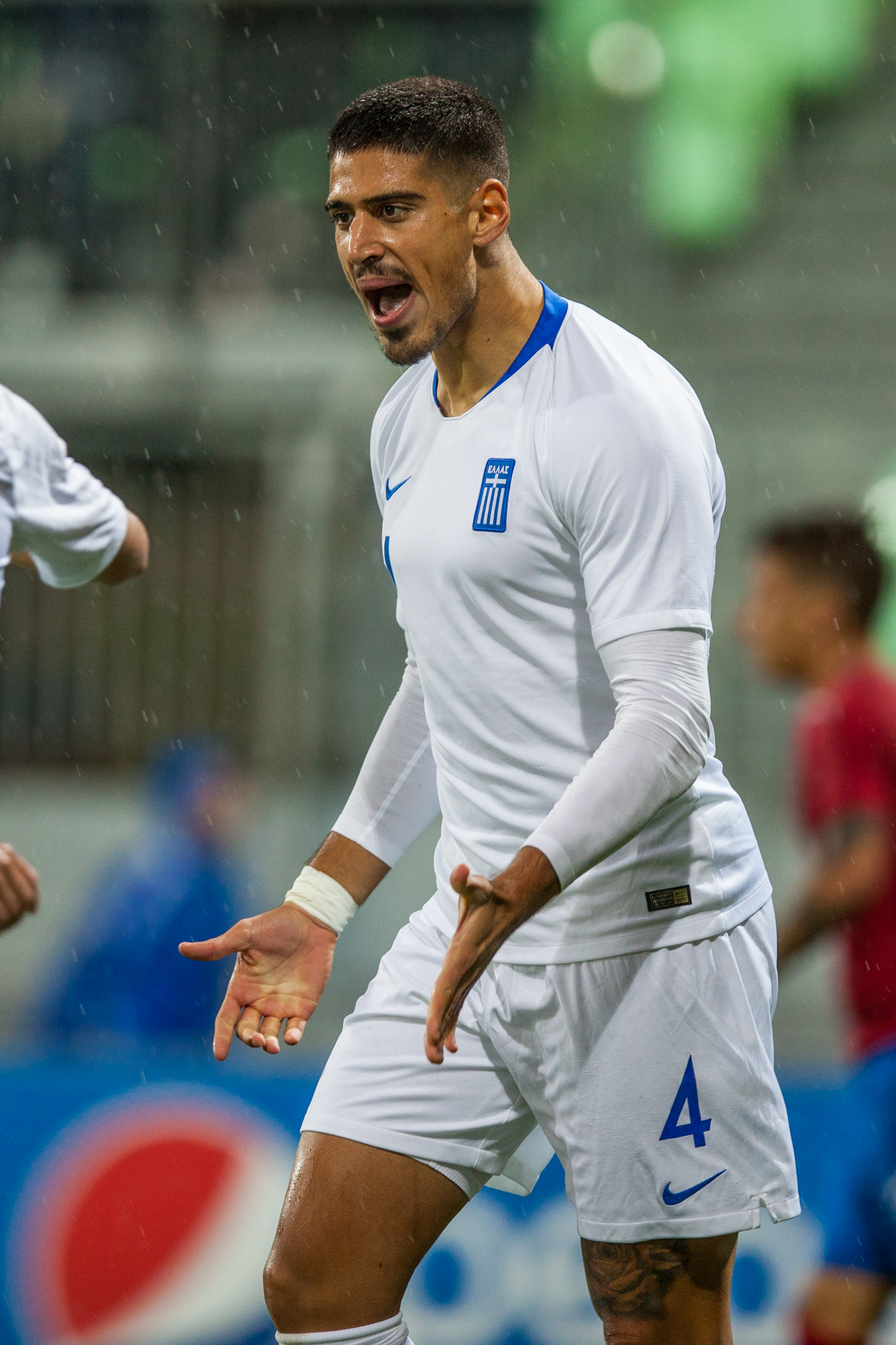 Dimitris Nikolaou in an internatinoal association football match of European Under-21 Championship Qualifying Round between the Czech Republic and Greece, Městský stadion Karviná, Karviná District, Moravian-Silesian Region, Czechia Personality rights warningAlthough this work is freely licensed or in the public domain, the person(s) shown may have rights that legally restrict certain re-uses unless those depicted consent to such uses. In these cases, a model release or other evidence of consent could protect you from infringement claims.